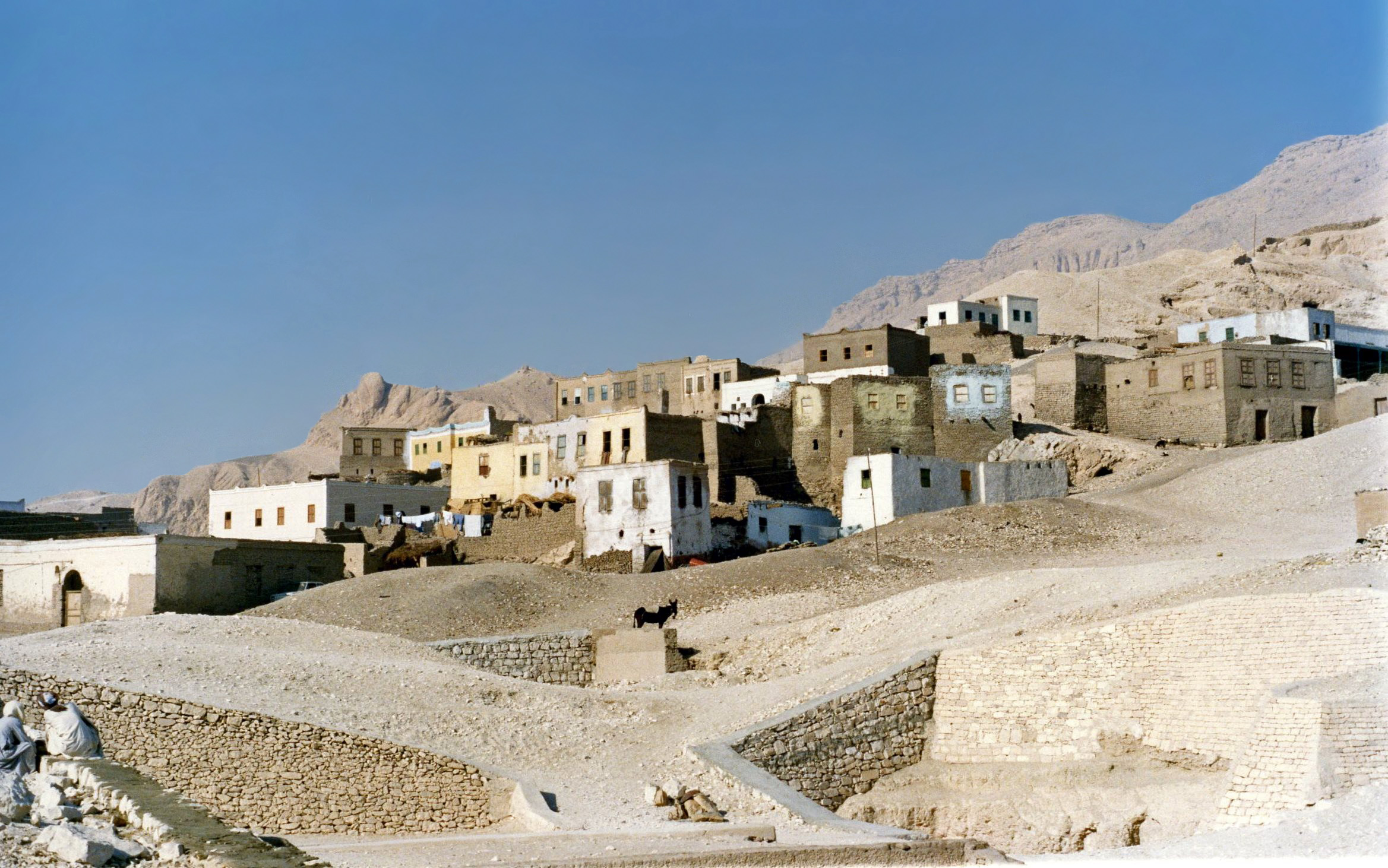 Village of Gournah, Egypt